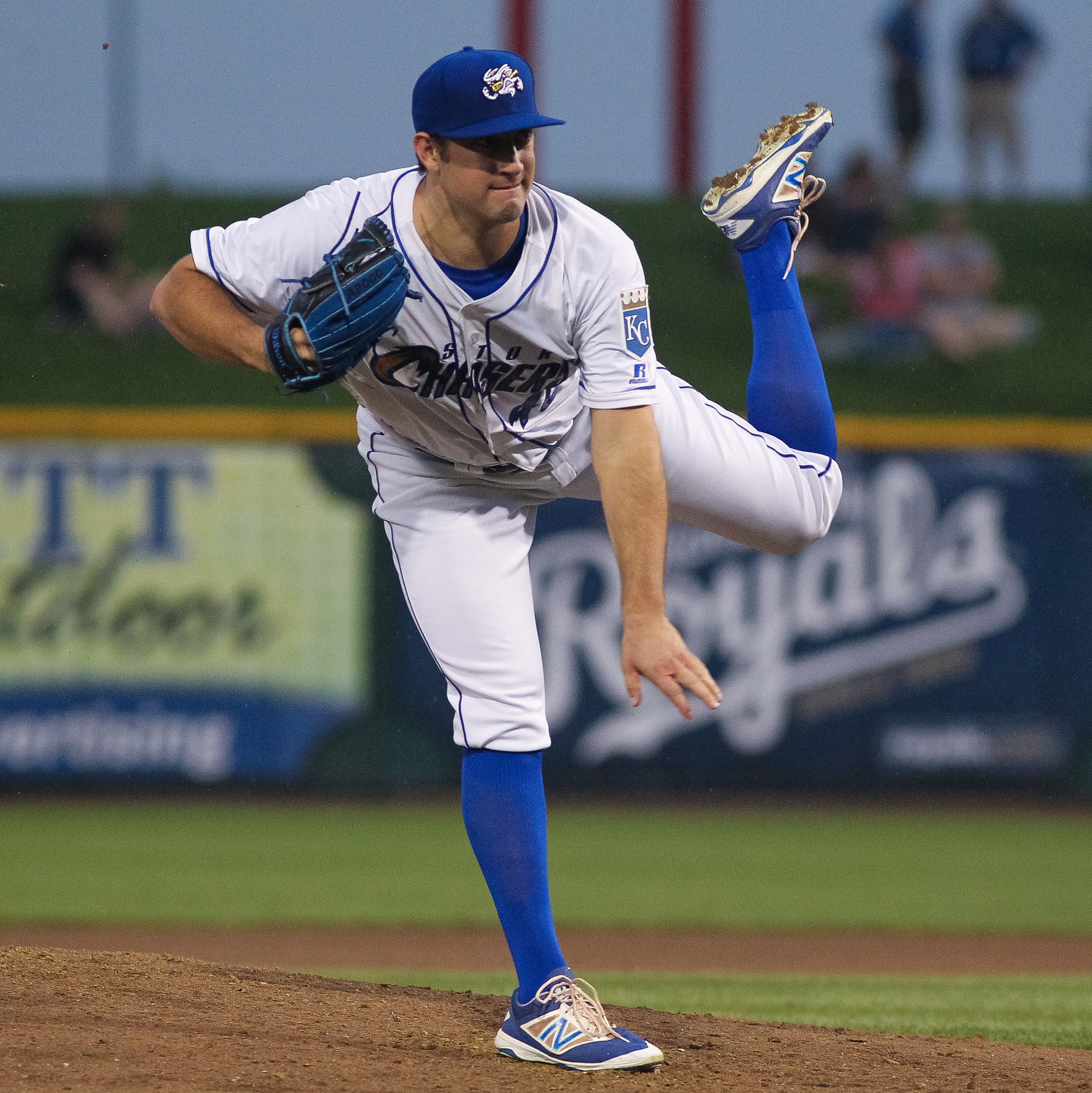 Jake Kalish delivers a pitch for the Omaha Storm Chasers at Werner Park in Omaha in 2017.